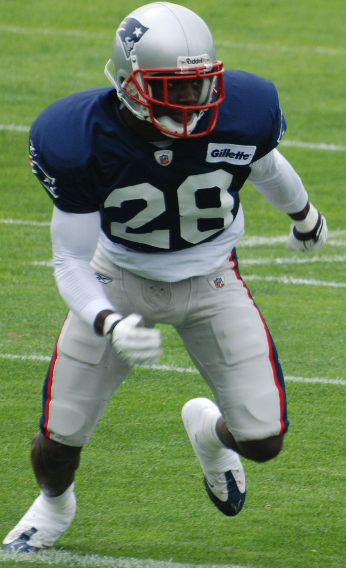 Cornerback, Darius Butler, at New England Patriots training camp in 2009.